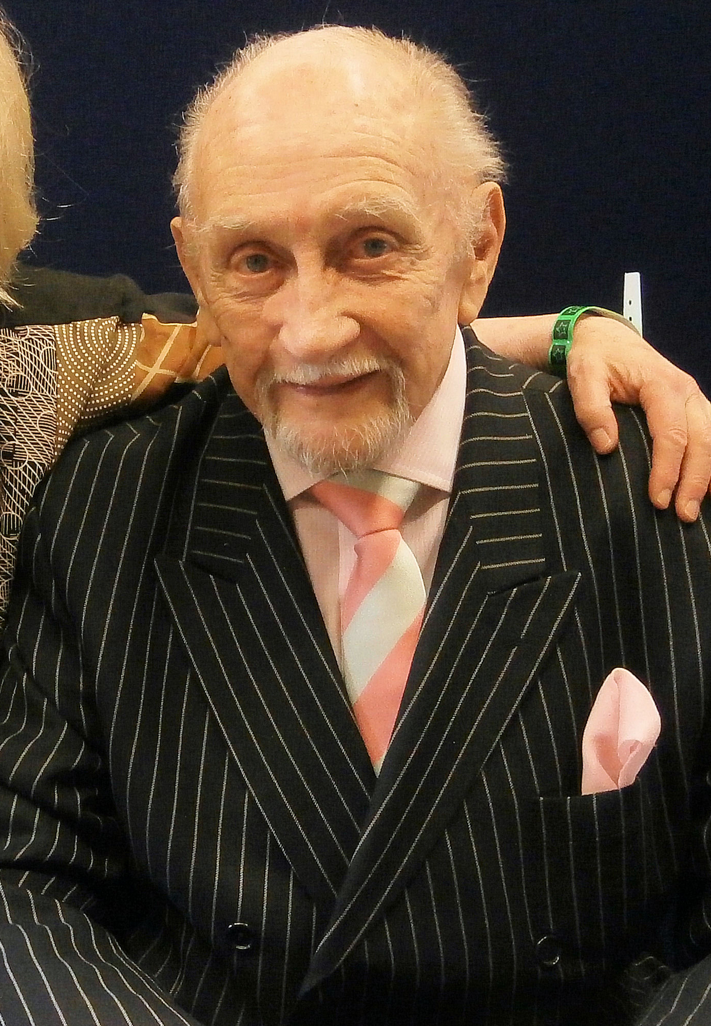 Michelle & Roy Dotrice